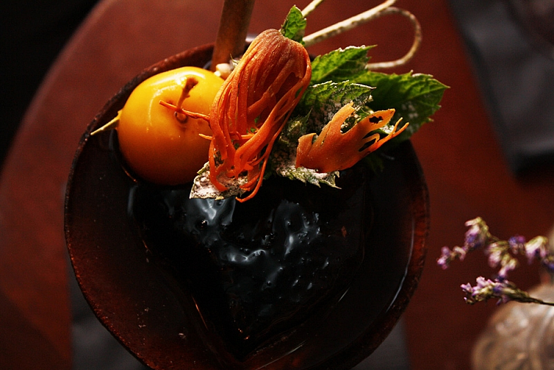 The Nightjar speakeasy, City Road, London 6/7/12. a cocktail made with the caribbean/american beverage "switchel".